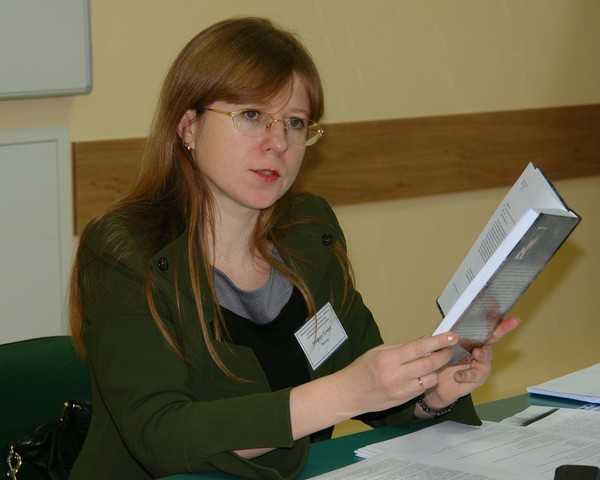 Елена Зейферт ведет Литературный семинар в Ясной Поляне, 2010 г.